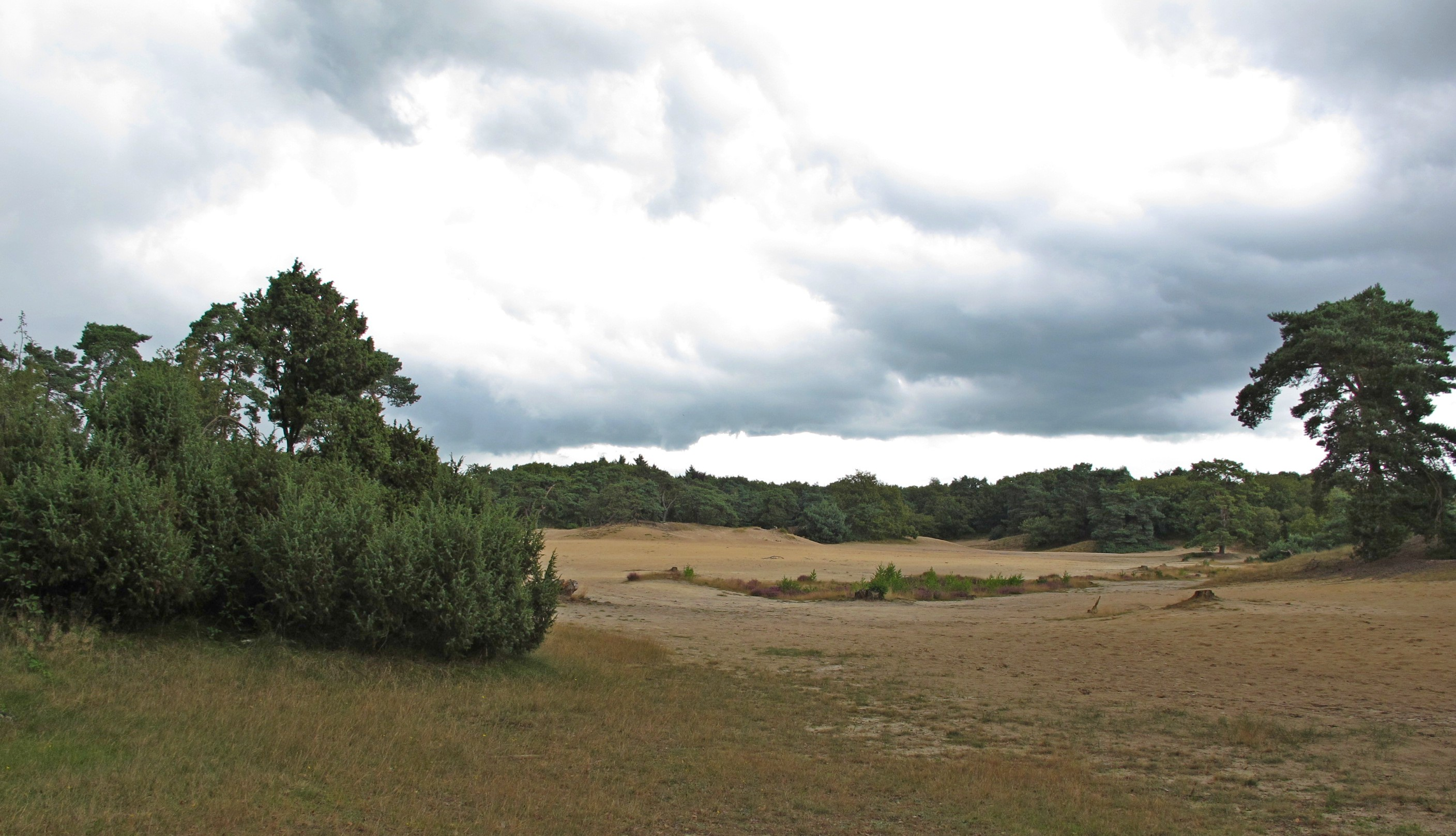 Korte Duinen, Soest Nl with Scots pine Pinus sylvestris and on the left common juniper Juniperus communis